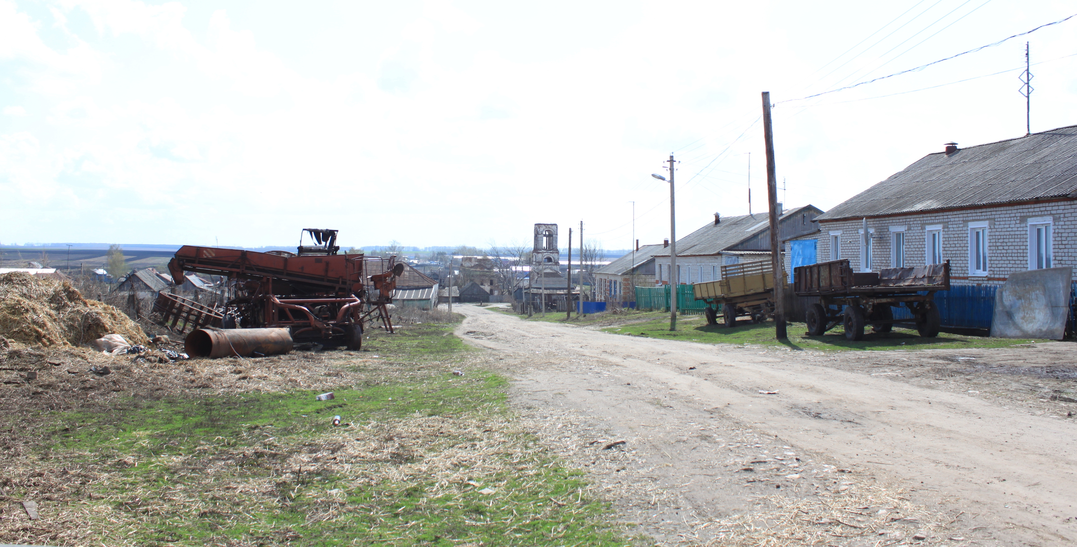 Main street in Sliznevo